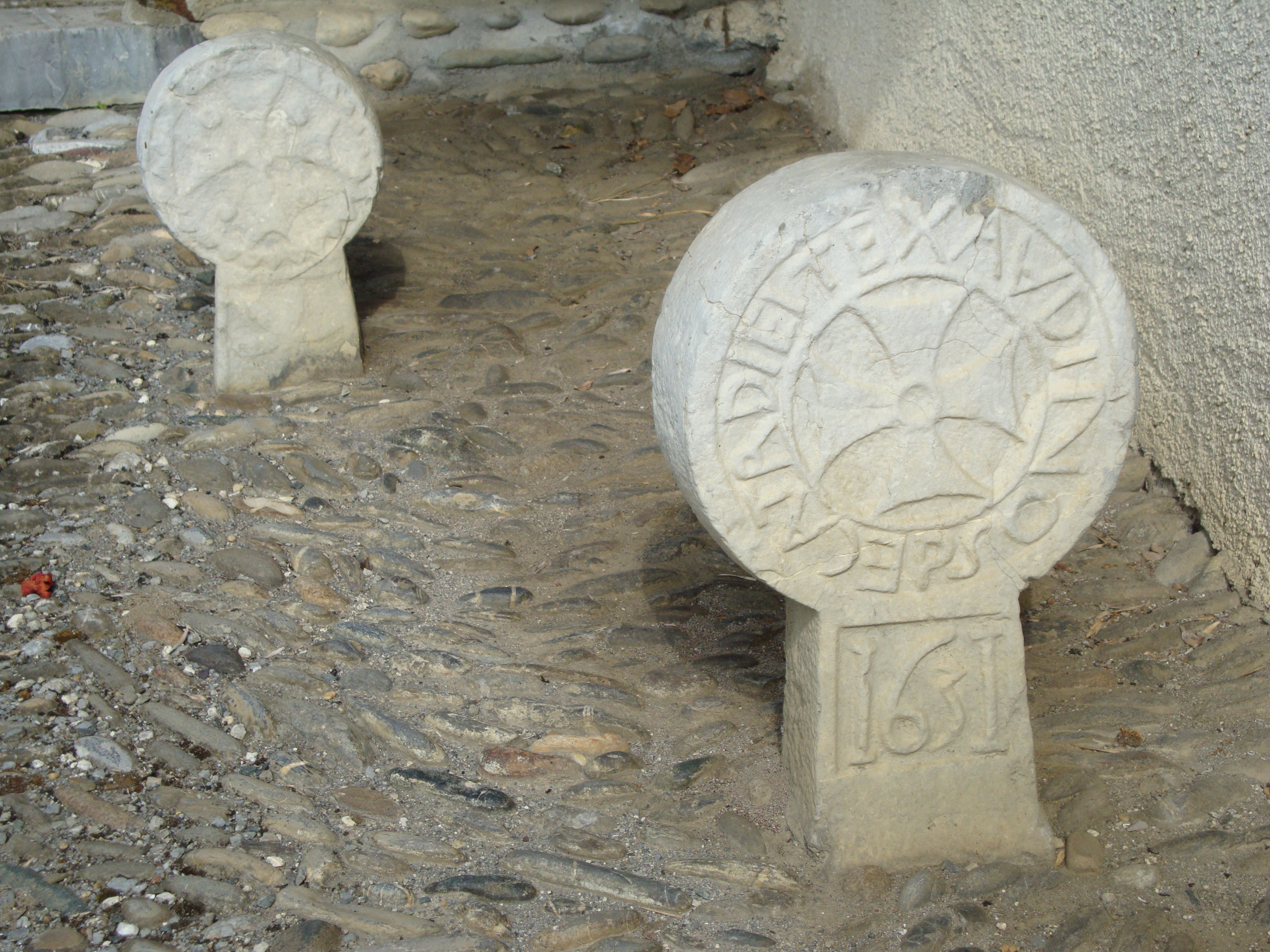 Ossas (Ossas-Suhare, Pyr-Atl, Fr) old discoidal steles.